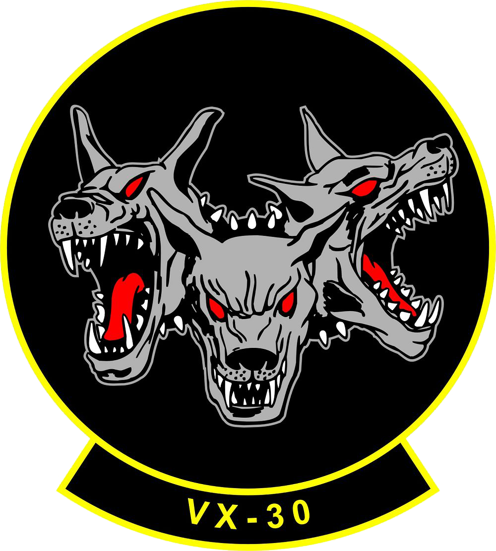 Insignia of the U.S. Navy Air Test and Evaluation Squadron 30 (VX-30) "Bloodhounds". The VX-30 logo was designed by Ralph R. Abel, a graphic techinical illustrator for VX-9 Detachment, Naval Base Ventura County, California (USA), requested by Lt. Cmdr Mark Thomas, VX-30 Maintance Officer, who had the idea to use Cerberus, the guardian of the gates of Hades in Greek mythology in 2003. The design was based on Mr. Abel's dog, a Rottweiler.